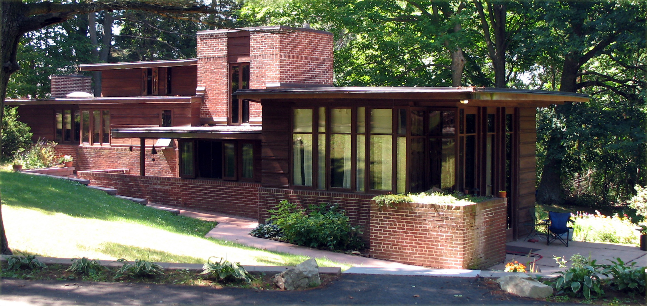 Frank Lloyd Wright house in Andrew Warren Historic District in Wausau, Wisconsin. Photo by poster in July 2007.